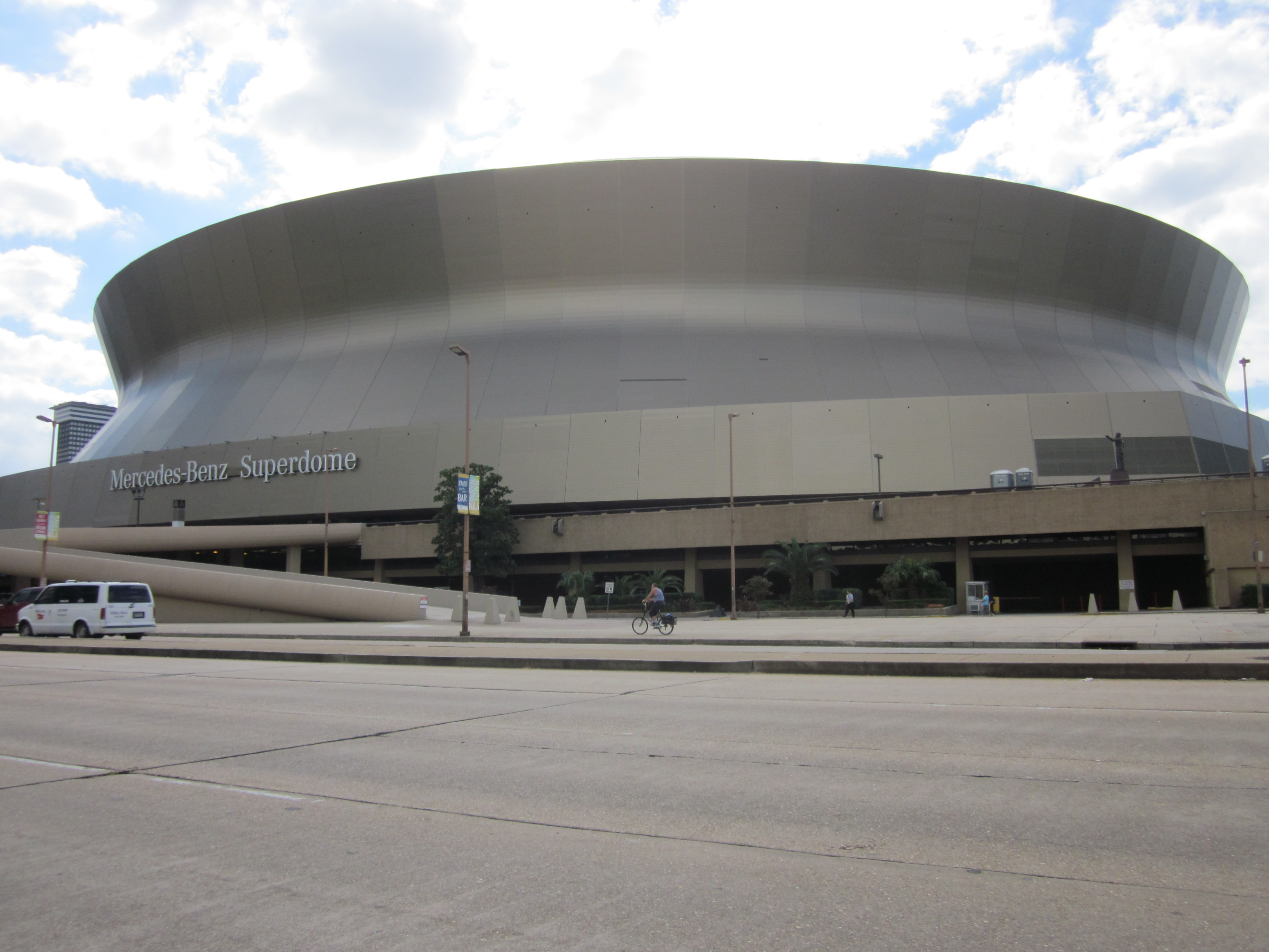 New Orleans. The Superdome new marketing sponsorship name "Mercedes Benz Superdome" just put on the sides of the buidling. Poydras Street side.